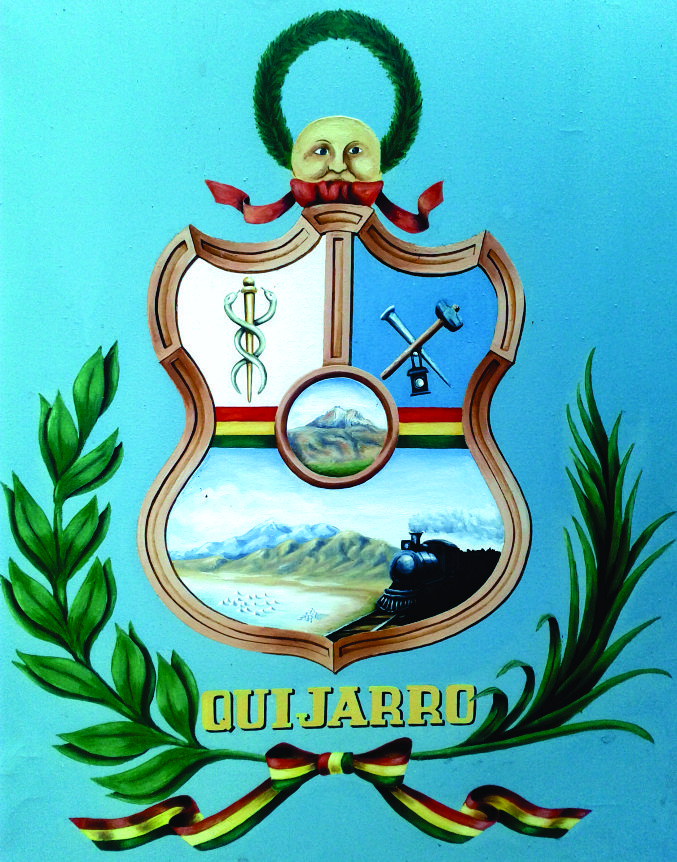 Escudo Uyuni Quijarro